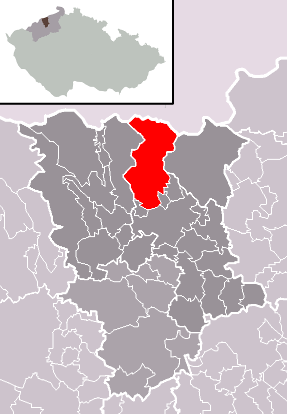 Location of Dubí town within Teplice District and administrative area of Teplice as a Municipality with Extended Competence.